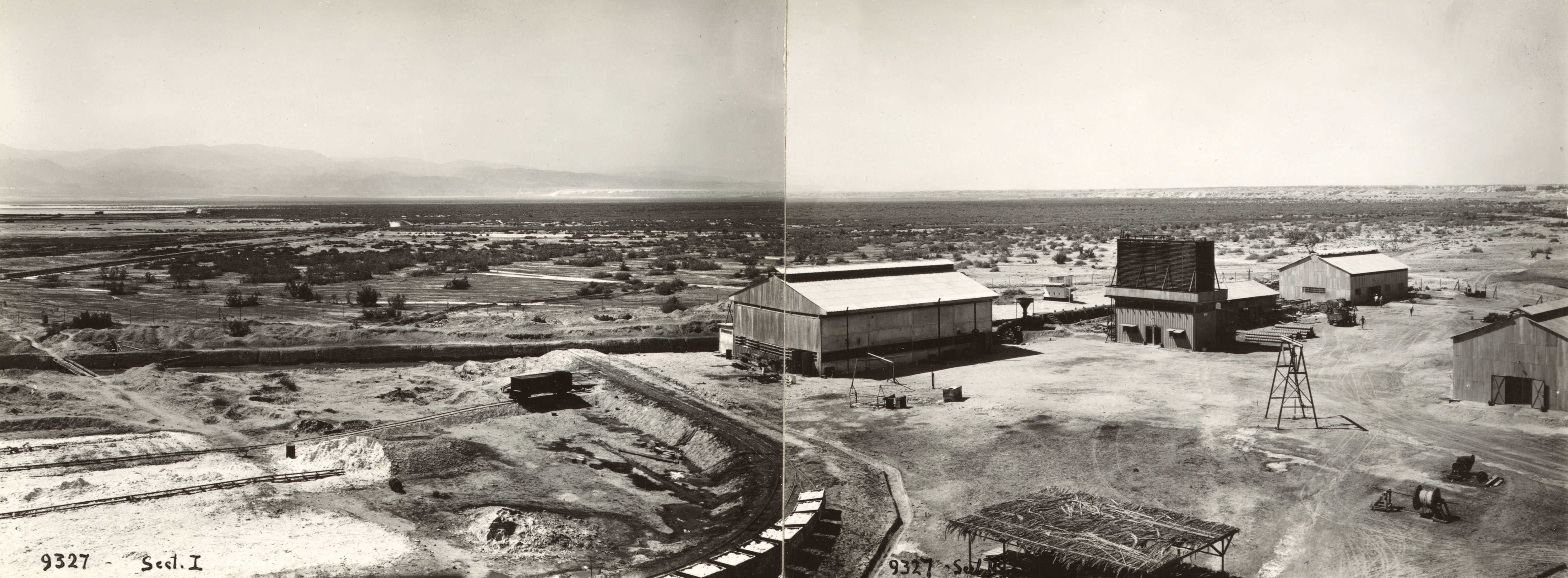 Panorama in two sections taken from the Palestine Potash factory.